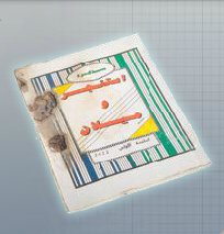 Al-Qa’ida Training Manual In 2001, US intelligence officers picked up this al-Qa’ida training manual outside Kandahar, Afghanistan. The officers found the manual while searching the ruins of a suspected chemical processing site. US ordnance that damaged the site caused the handbook’s burn marks. The manual includes instructions for firing Stinger missiles. 22.8 cm x 18 cm (H x L) All artifacts have been declassified by the appropriate officials for public viewing. Please note that because the museum is located on the CIA compound, it is not open to the public for tours.